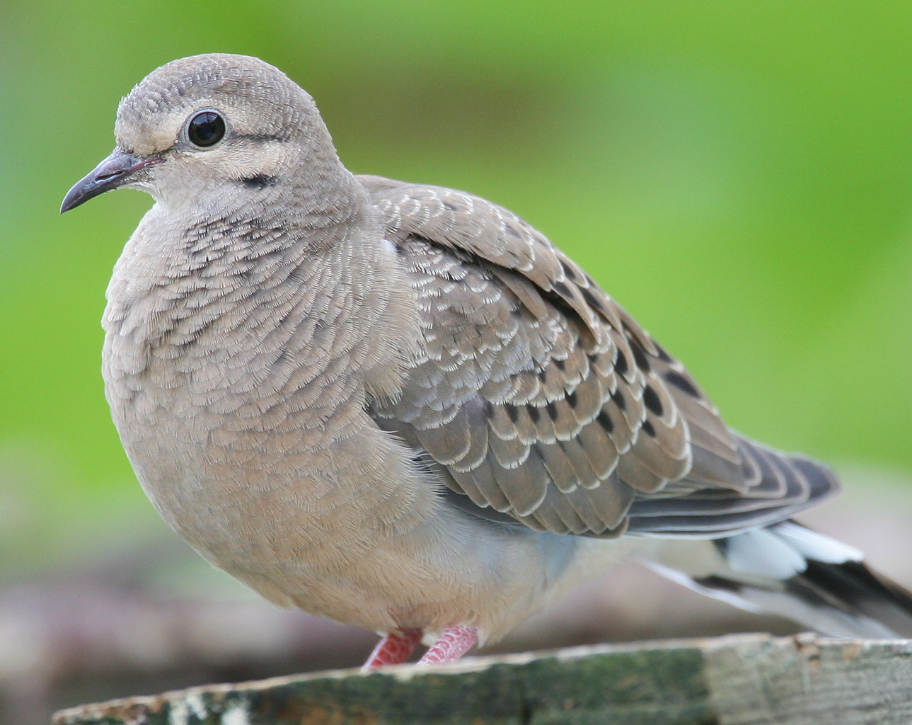 Mourning dove (Zenaida macroura) juvenile, in a backyard in Toronto, Canada, 2005.